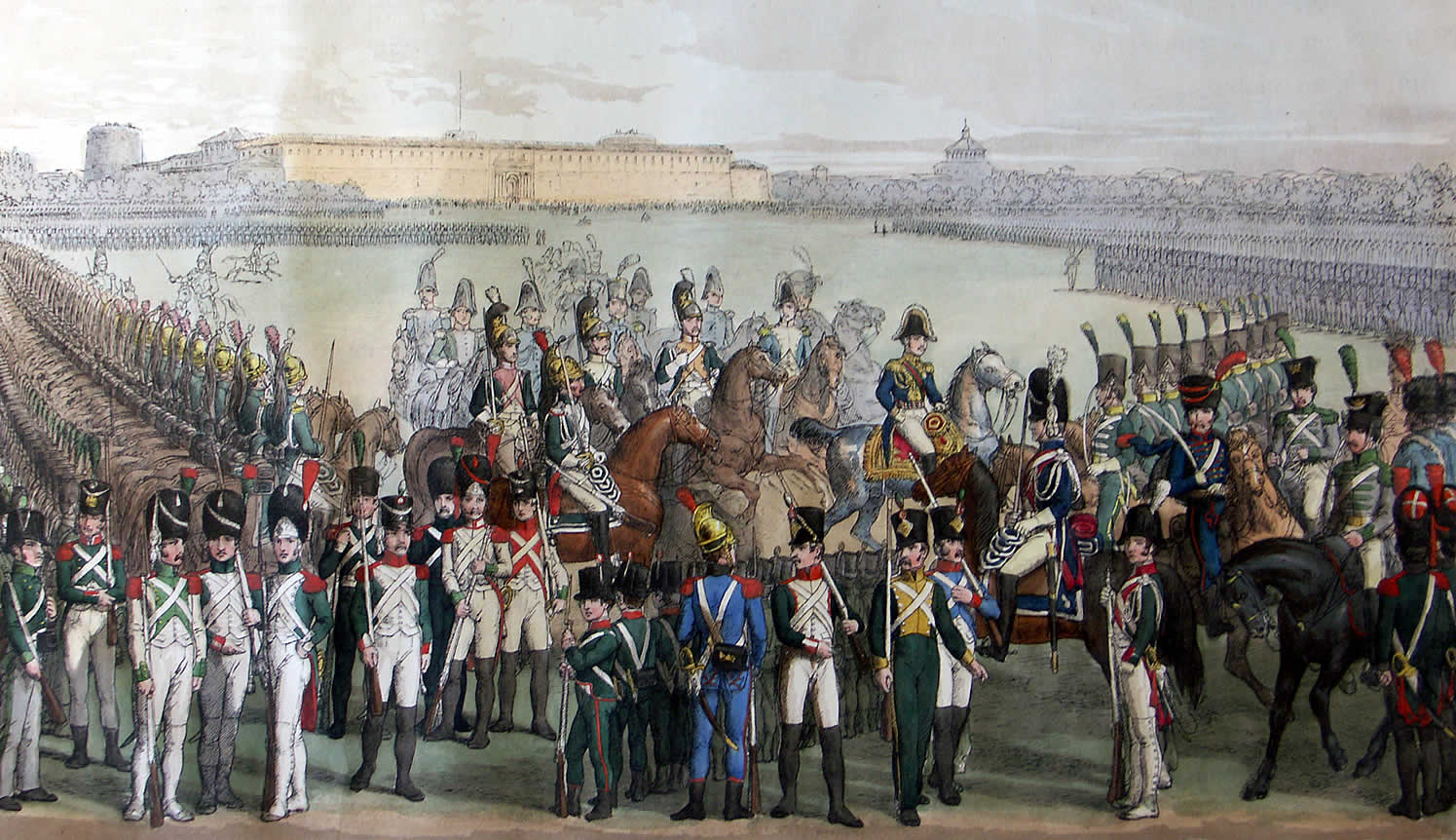 Parade of the Italian Military before Eugène de Beauharnais, 1812